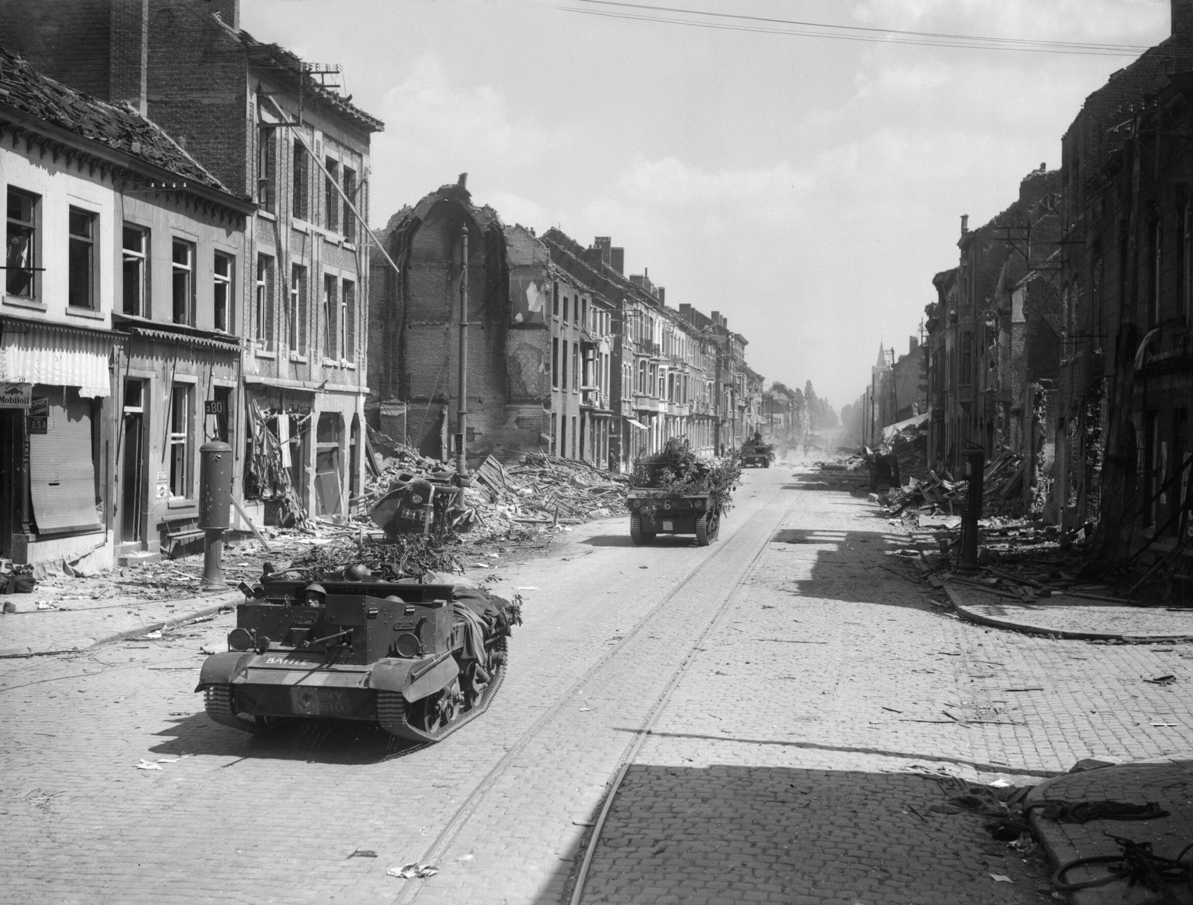 The British Army in France and Belgium 1940 Bren gun carriers pass along a ruined street in Louvain, 14 May 1940.